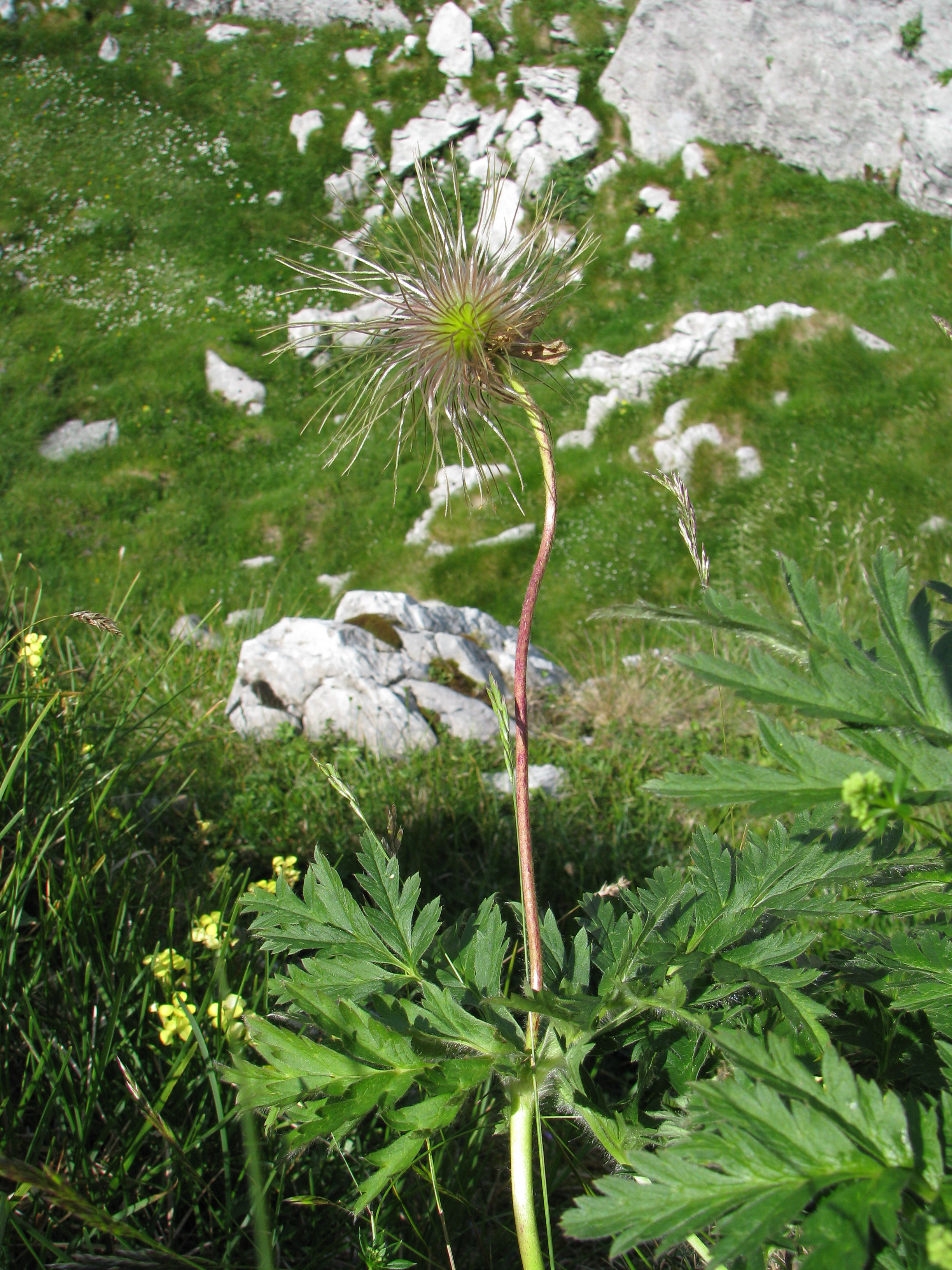 Pulsatilla alpina subsp. cantabrica